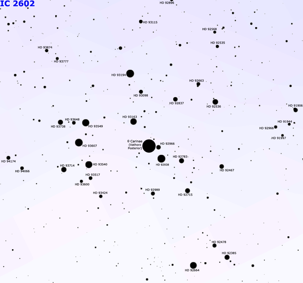 Detailed map of IC 2602, the Southern Pleiades (Theta Carinae cluster)